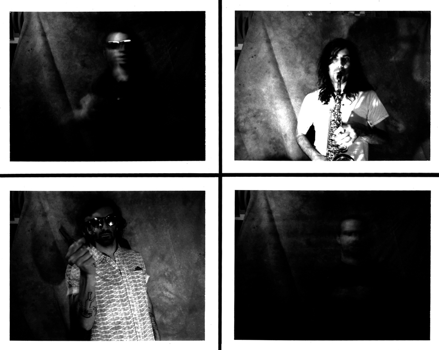 THE MEN IN THEIR REHEARSAL STUDIO